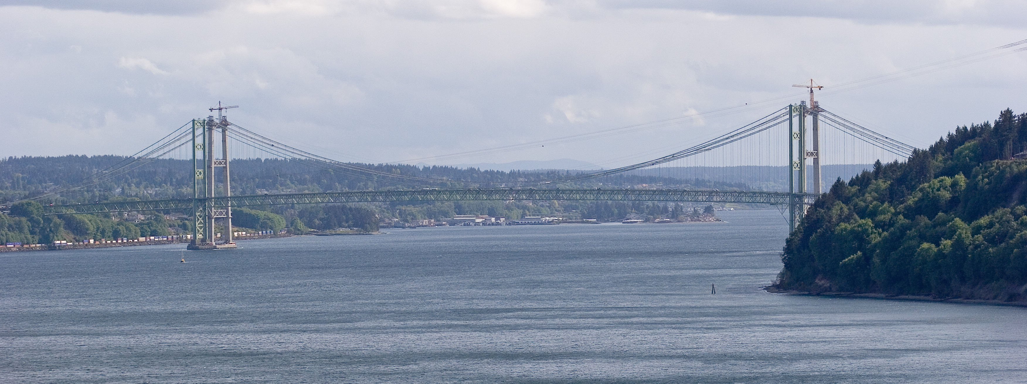 Tacoma Narrows Bridge, between Tacoma and Gig Harbor, Washington, United States